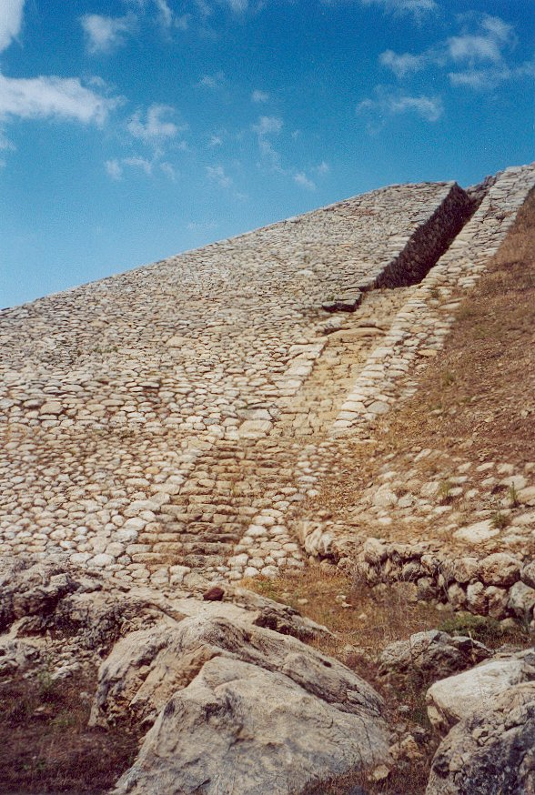 The Yerkapi rampart at Hattusa, Turkey. This artificial ridge marks the highest point in the city's fortifications. It is 250 meters long and at the foundation over 80 meters wide. Its name means 'gate in the earth'; indeed a tunnel - built with corbeled arches - runs through the rampart.